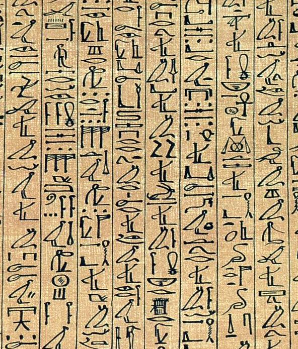 Cursive hieroglyphs from the Papyrus of Ani, an example of the Egyptian Book of the Dead